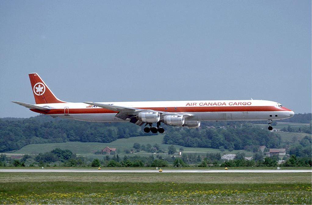 Douglas DC-8-73 of Air Canada at Zurich Airport